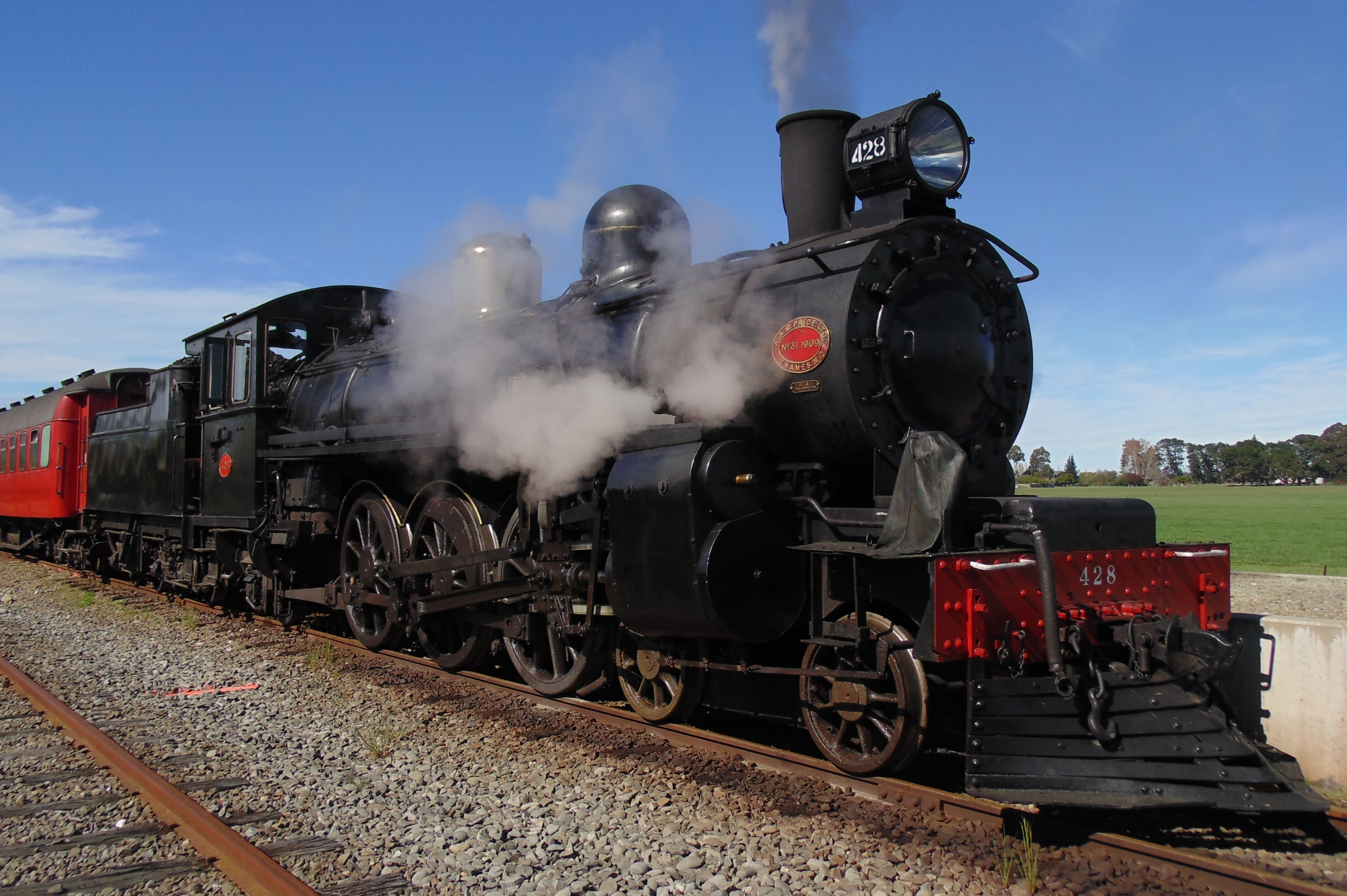 TrainboyMBH